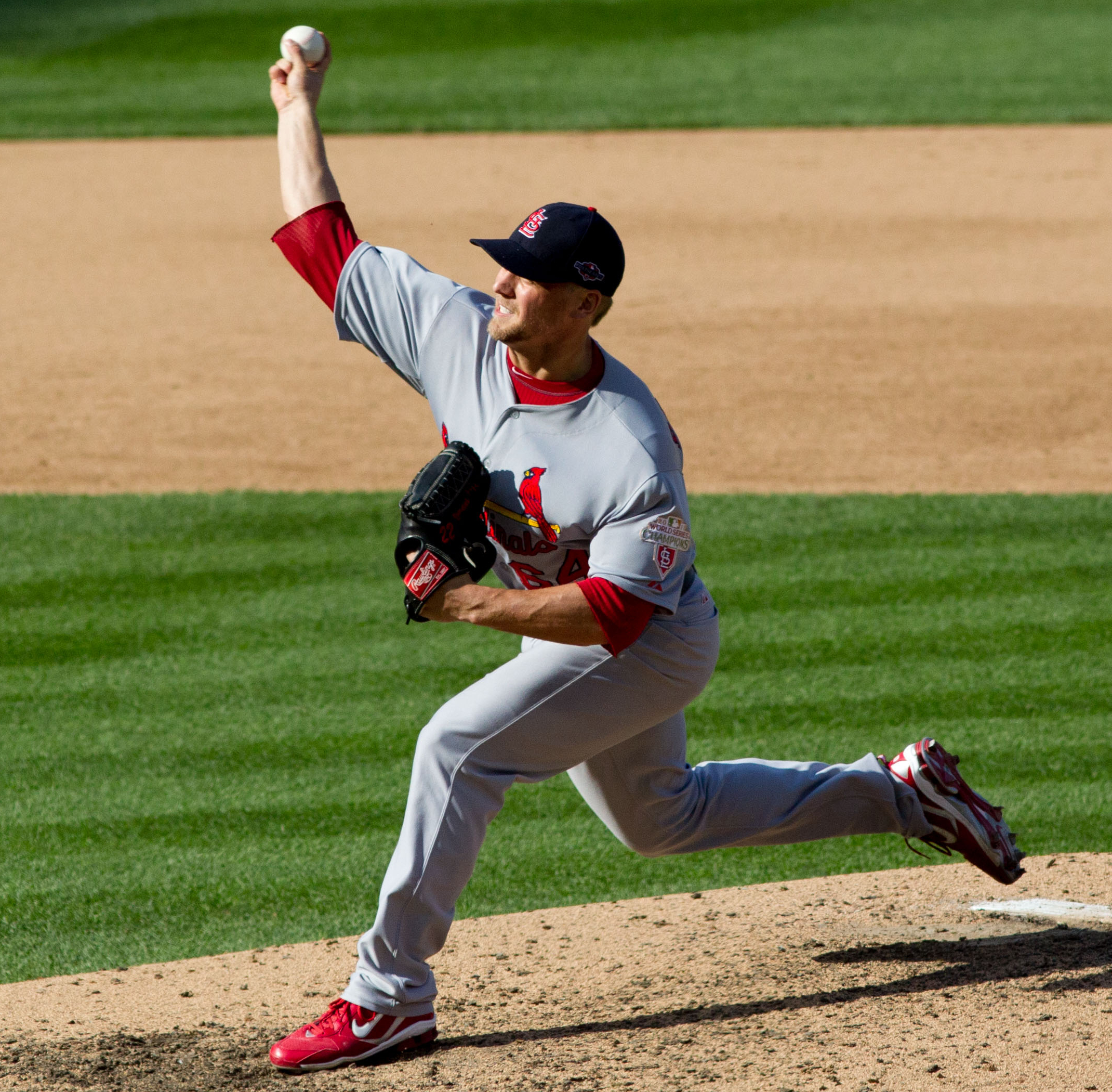 St. Louis Cardinals pitcher Trevor Rosenthal – St. Louis Cardinals at Washington Nationals. NLDS Game 3. October 10, 2012.